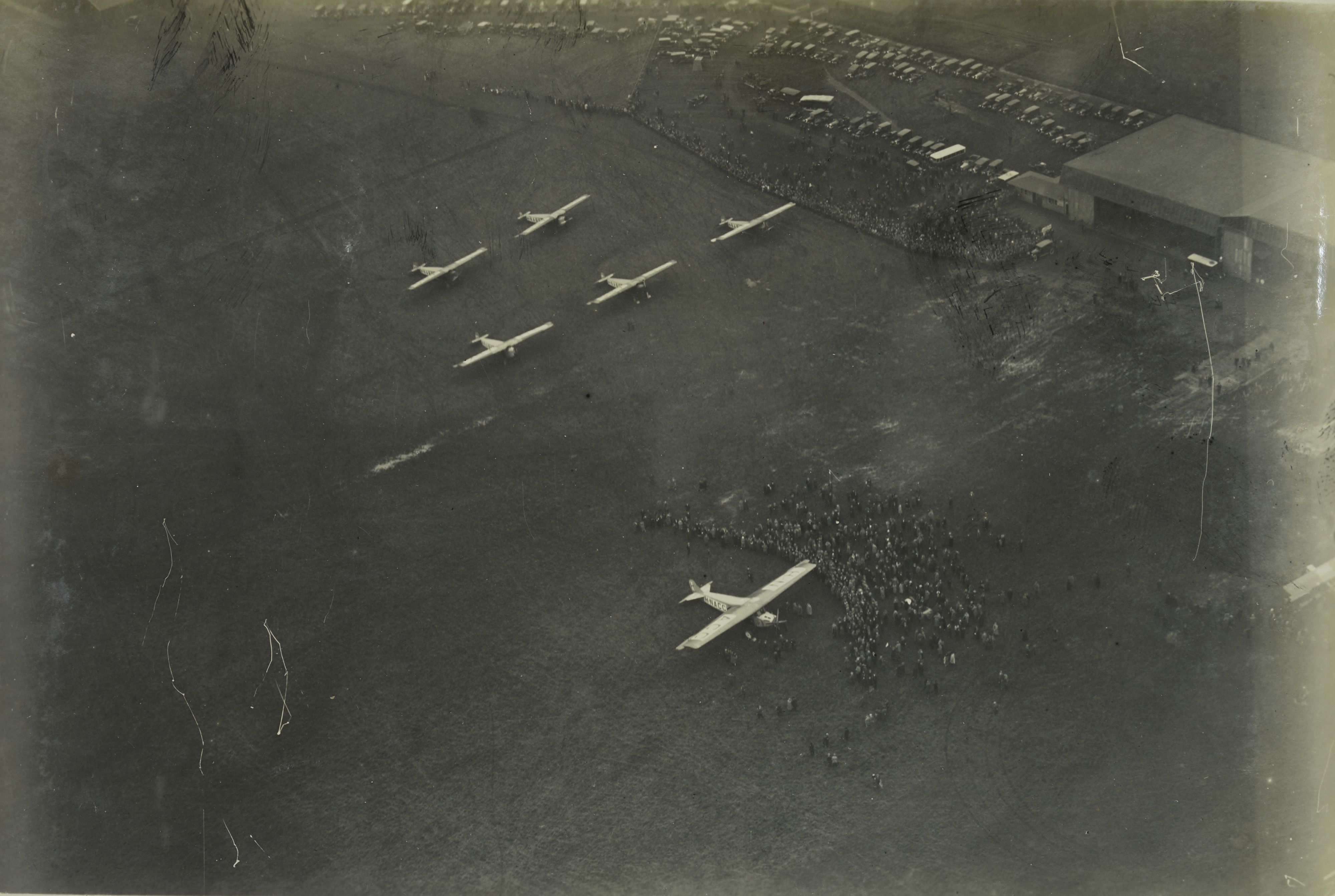 Aerial photograph of Schiphol airfield in the Netherlands, with the Fokker F.VII H-NACC of KLM in the foreground and several KLM Fokker F.IIIs in the background. On 1 October 1924, H-NACC took off from Schiphol on the first KLM flight from Amsterdam to Java in the Dutch East Indies.